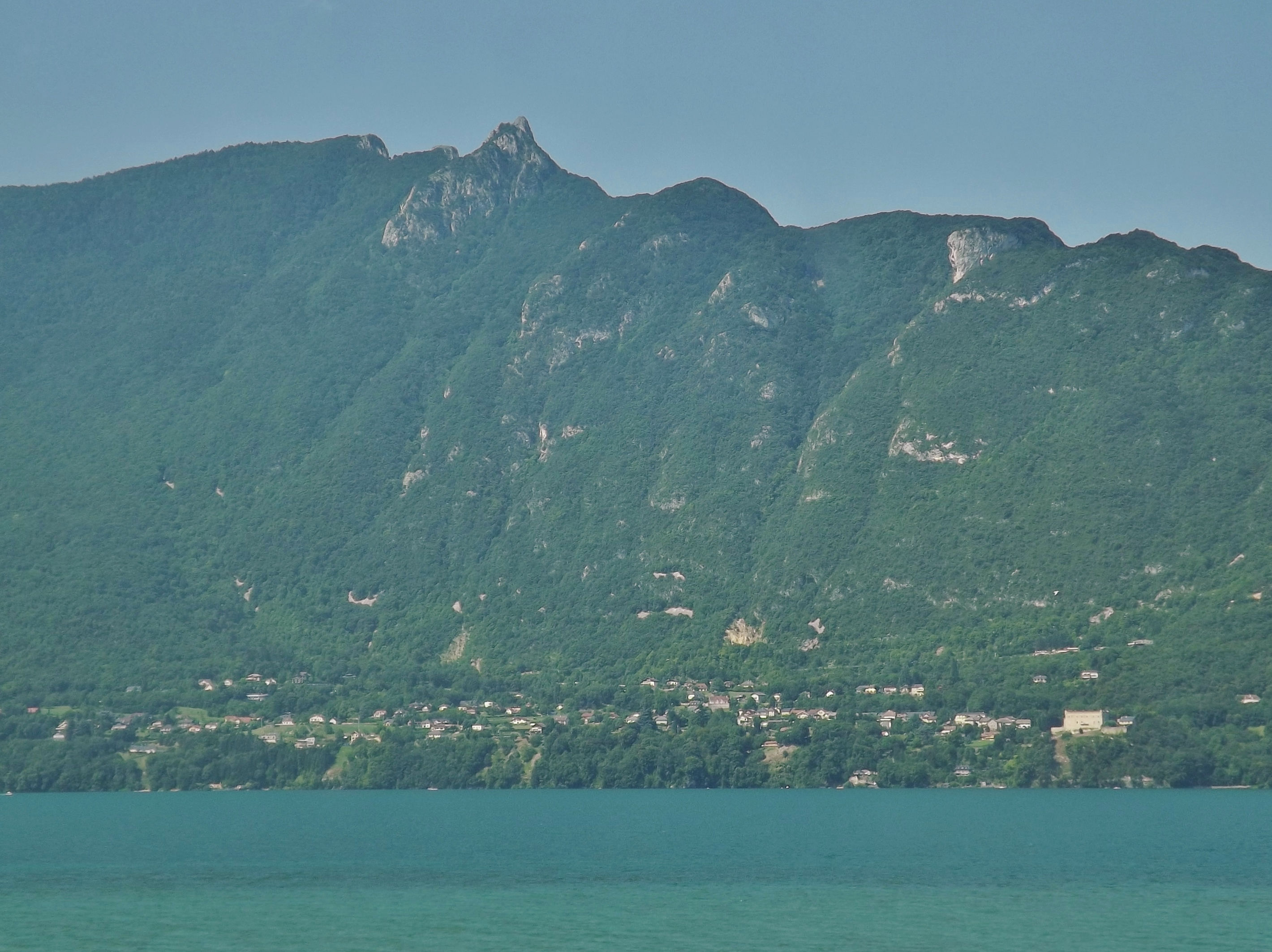 Sight from Tresserve, on the French commune and village of Bourdeau, at the foot of the Mont du Chat mount and close to the lac du Bourget lake, in Savoie.